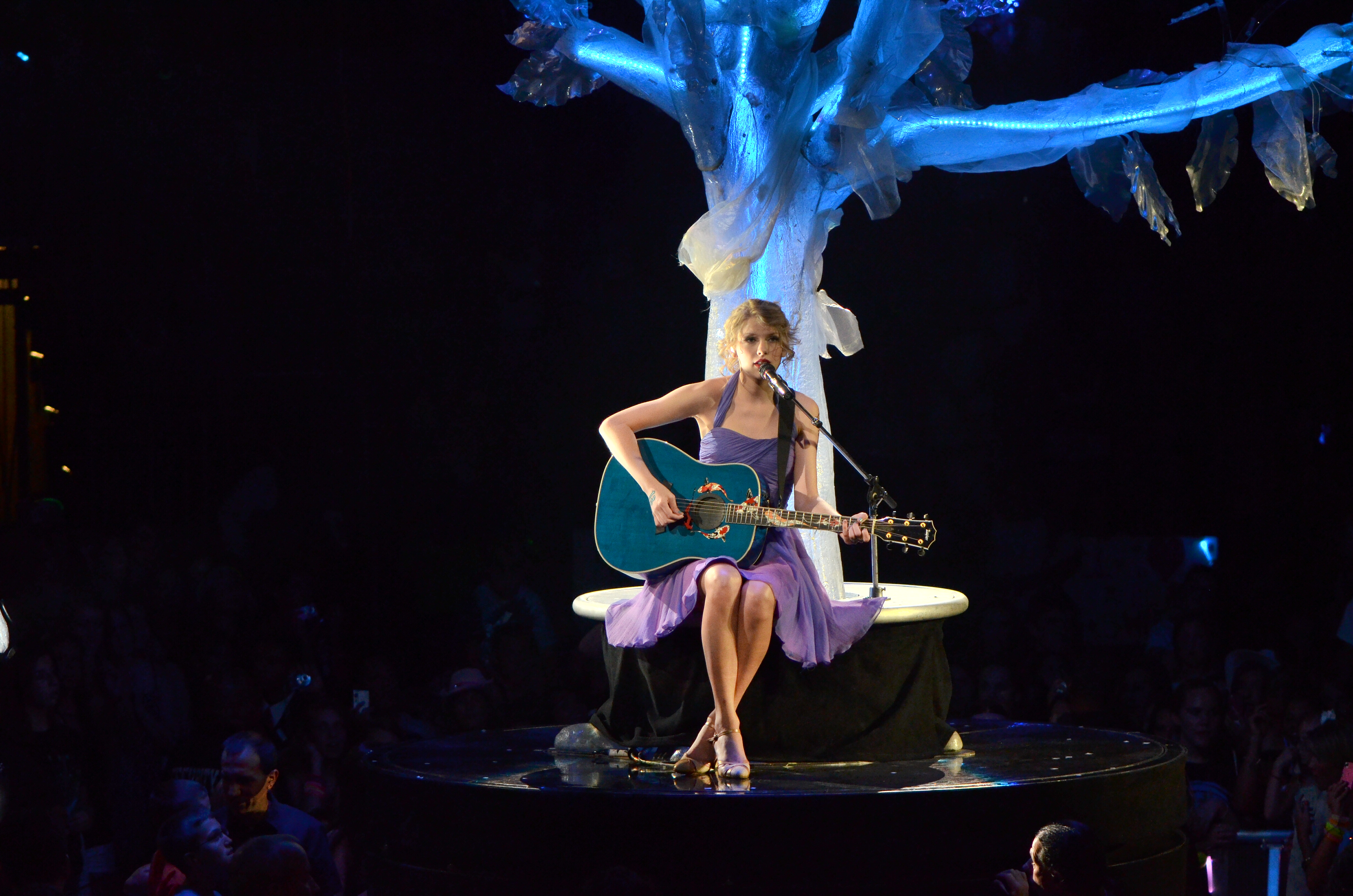 Taylor Swift - Speak Now tour 2011.